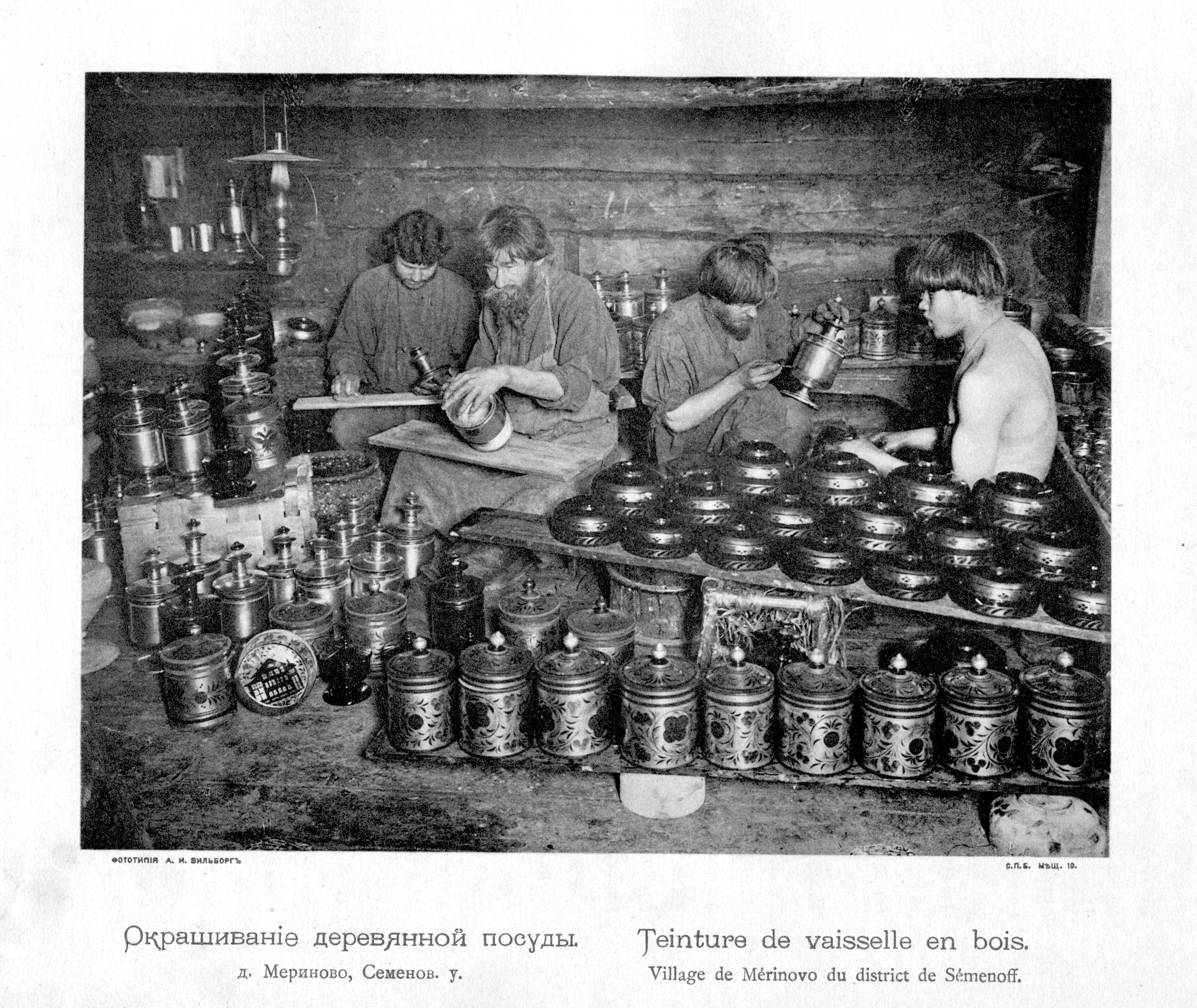 Handicraft Industry and Trades of Nizhegorodskaja gubernija. Merinovo. XIX c.